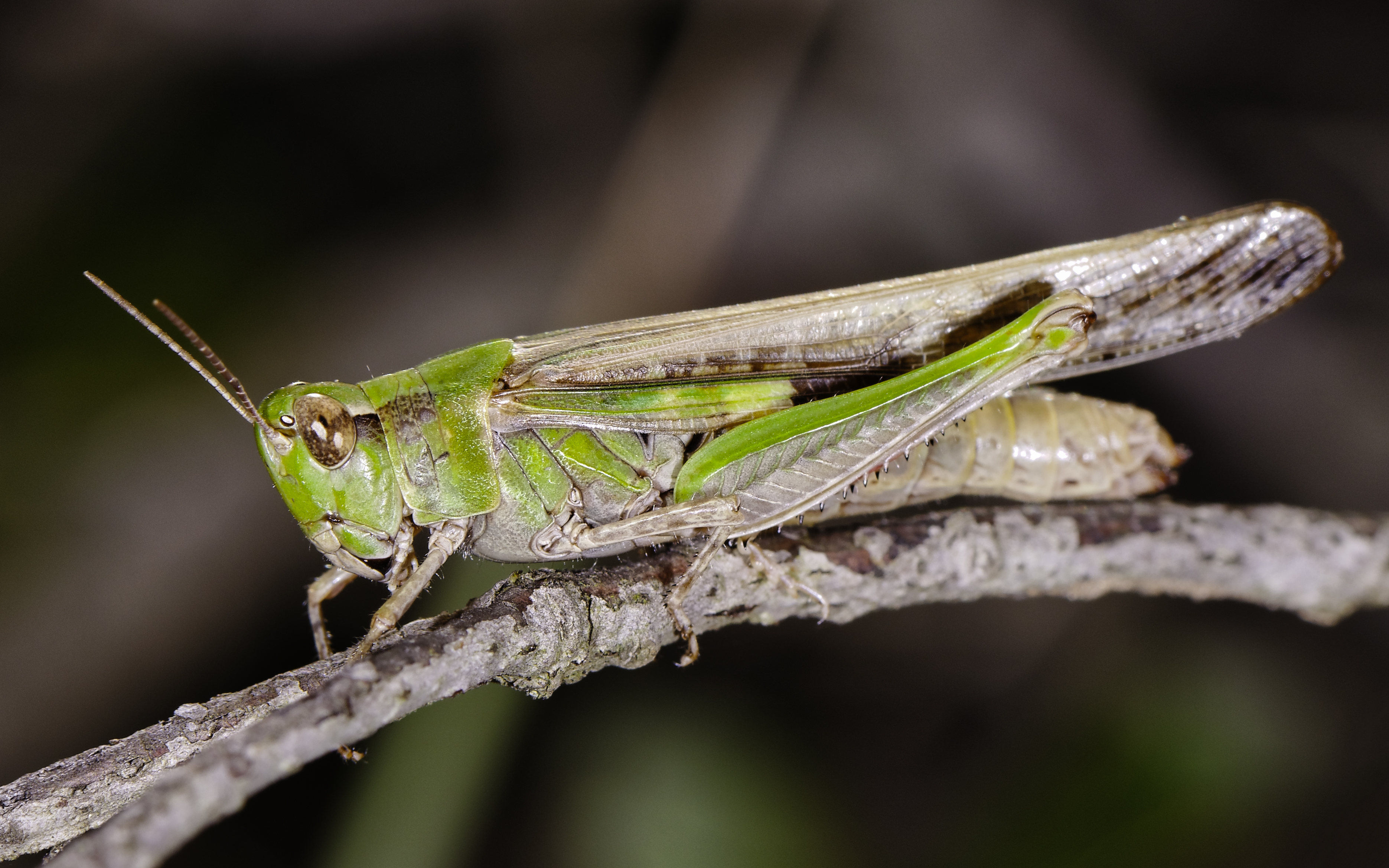 Chorthippus biguttulus female. Found near wetlands. Vic-la-Gardiole, Hérault, France.